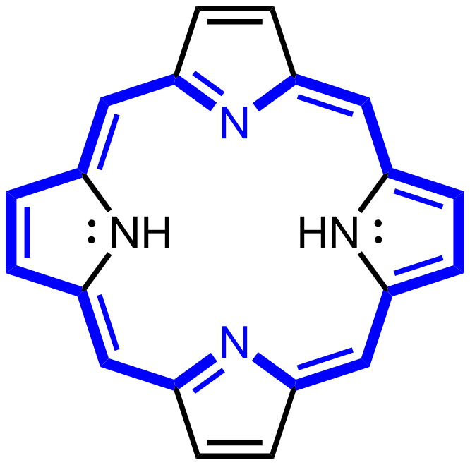 Aromatic 18 e cycle traced in bold.